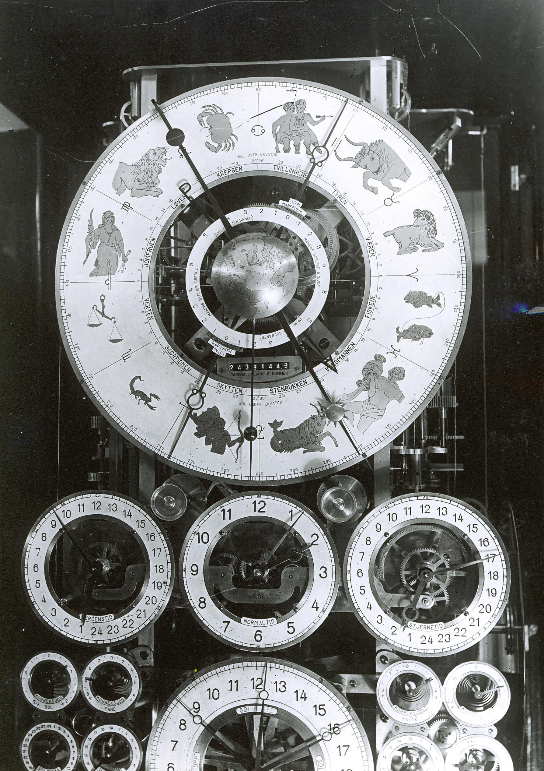 Original summary: "Photographed by author".